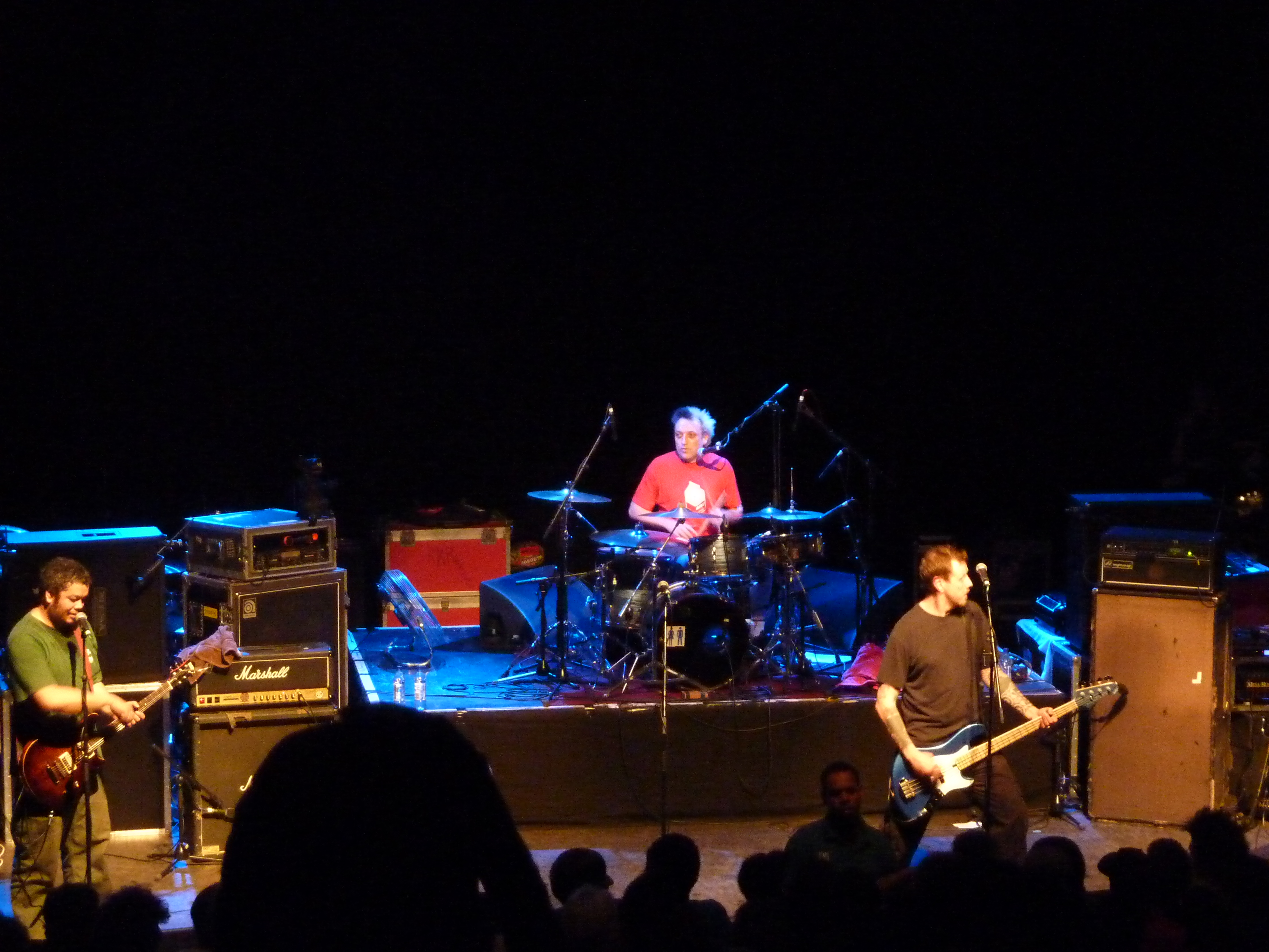 The Drummer is the main vocals. Can't think of any band like that